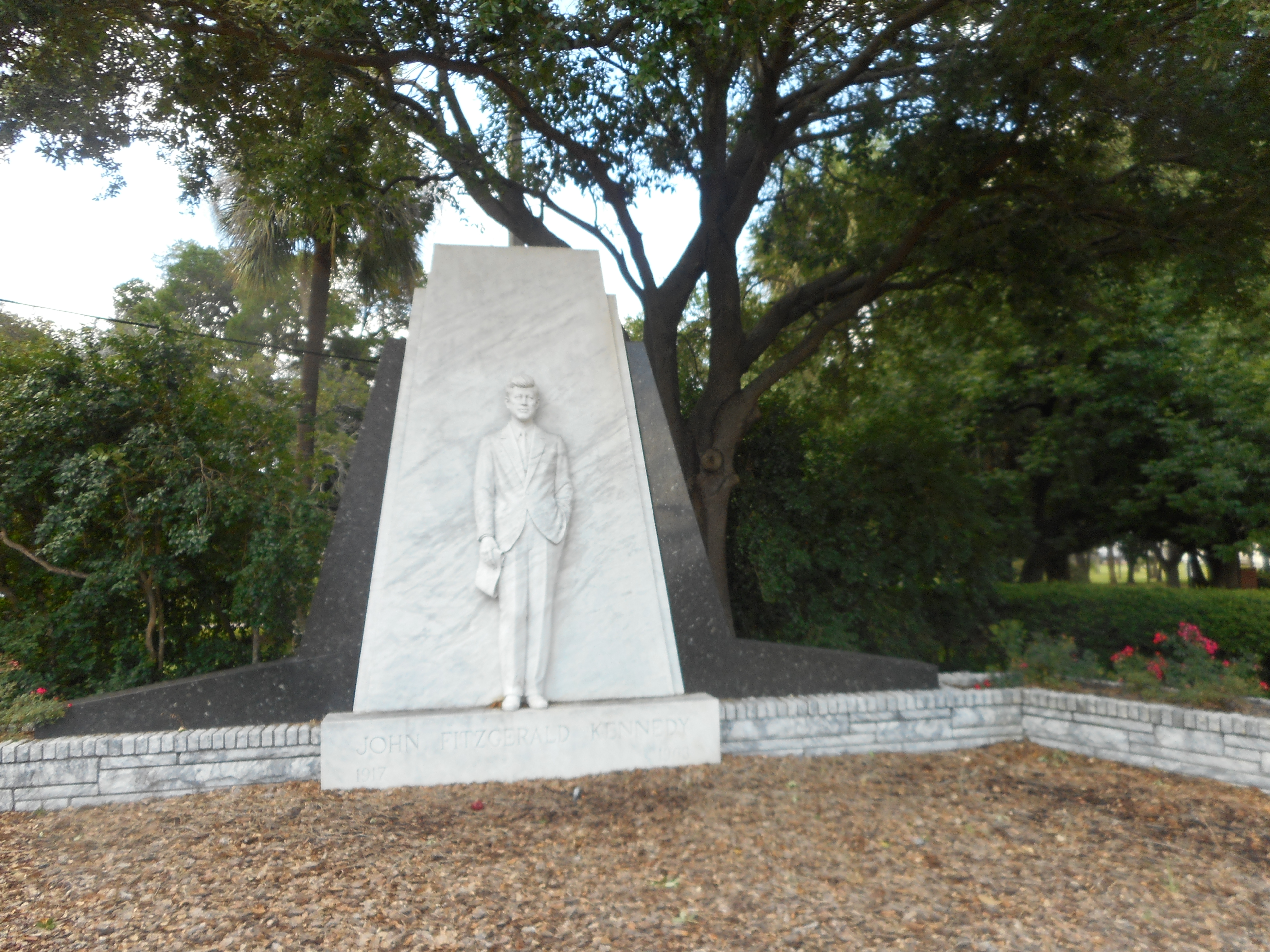 Statue of John Fitzgerald Kennedy at the main gate to the University of Tampa/Old Tampa Bay Hotel/Henry B. Plant Museum, and all related properties.